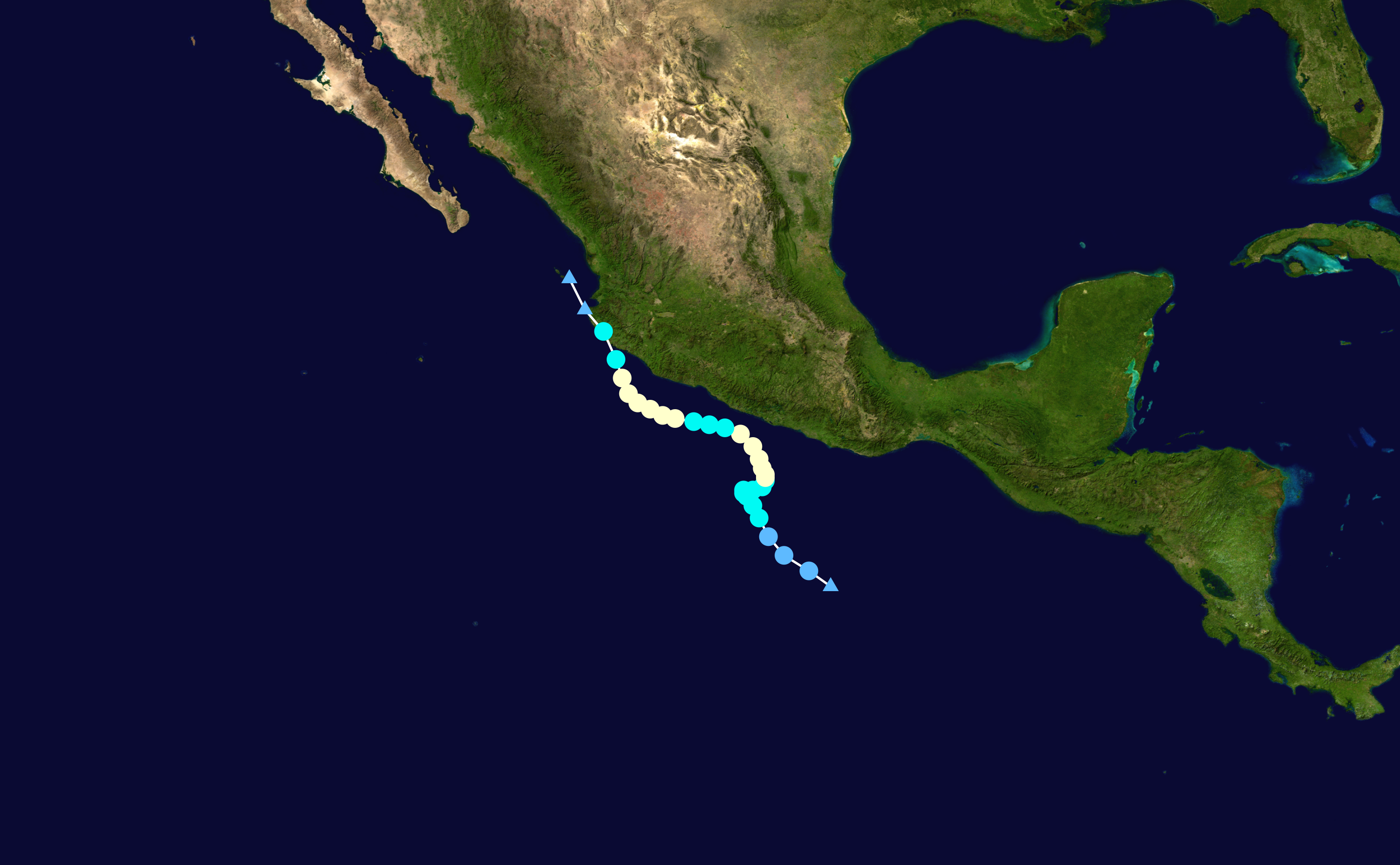 Track map of Hurricane Carlos of the 2015 Pacific hurricane season. The points show the location of the storm at 6-hour intervals. The colour represents the storm's maximum sustained wind speeds as classified in the Saffir–Simpson scale (see below), and the shape of the data points represent the nature of the storm, according to the legend below. Saffir–Simpson scale Tropical depression≤38 mph≤62 km/h Category 3111–129 mph178–208 km/h Tropical storm39–73 mph63–118 km/h Category 4130–156 mph209–251 km/h Category 174–95 mph119–153 km/h Category 5≥157 mph≥252 km/h Category 296–110 mph154–177 km/h Unknown Storm type Tropical cyclone Subtropical cyclone Extratropical cyclone / Remnant low / Tropical disturbance / Monsoon depression